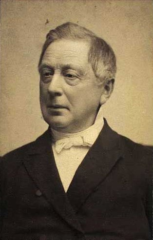 Carl Christian Alberti (1814-1890), Danish politician, MP